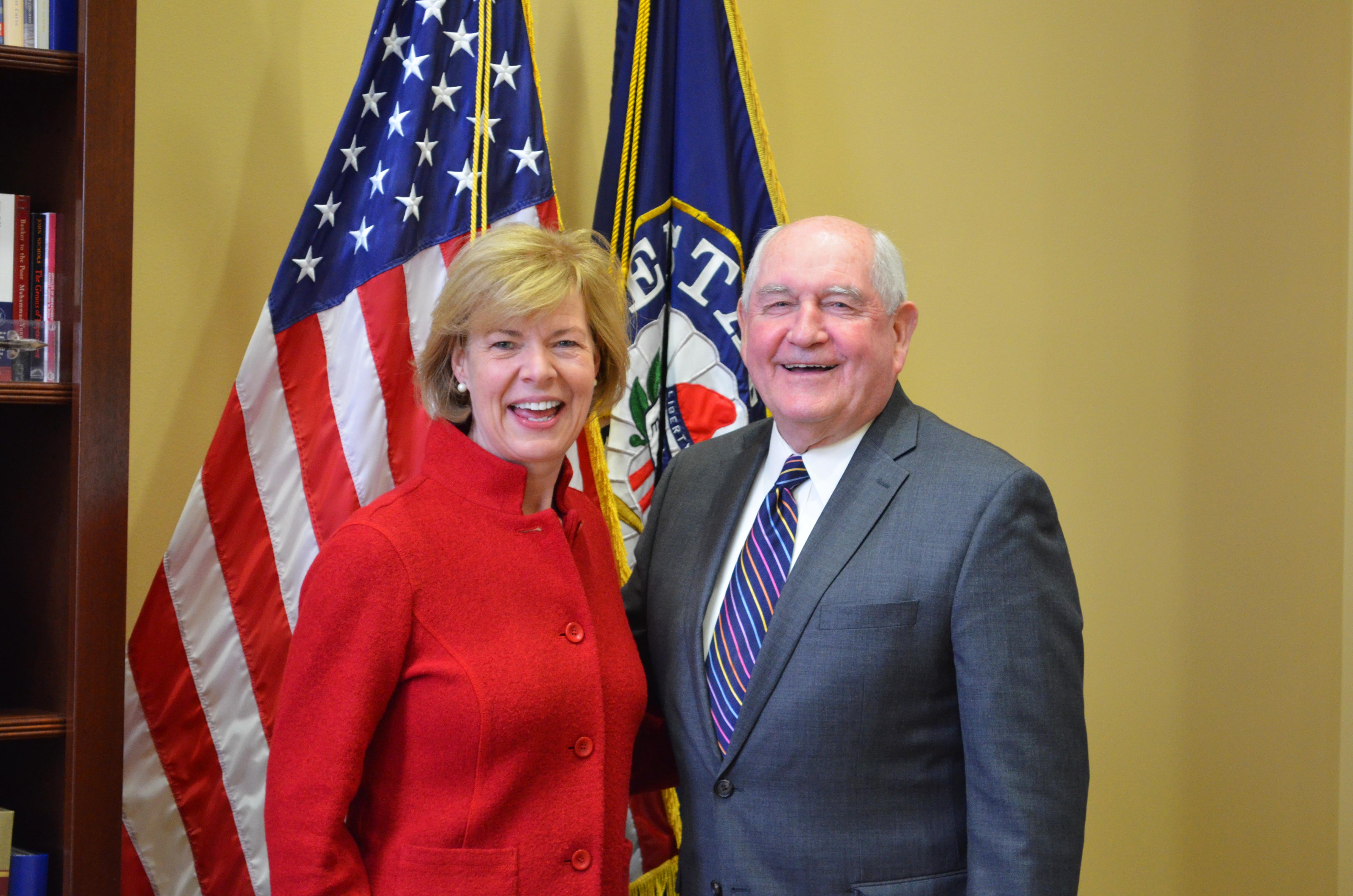 U.S. Senator Tammy Baldwin meets with Agriculture Secretary nominee Sonny Perdue on February 9, 2017